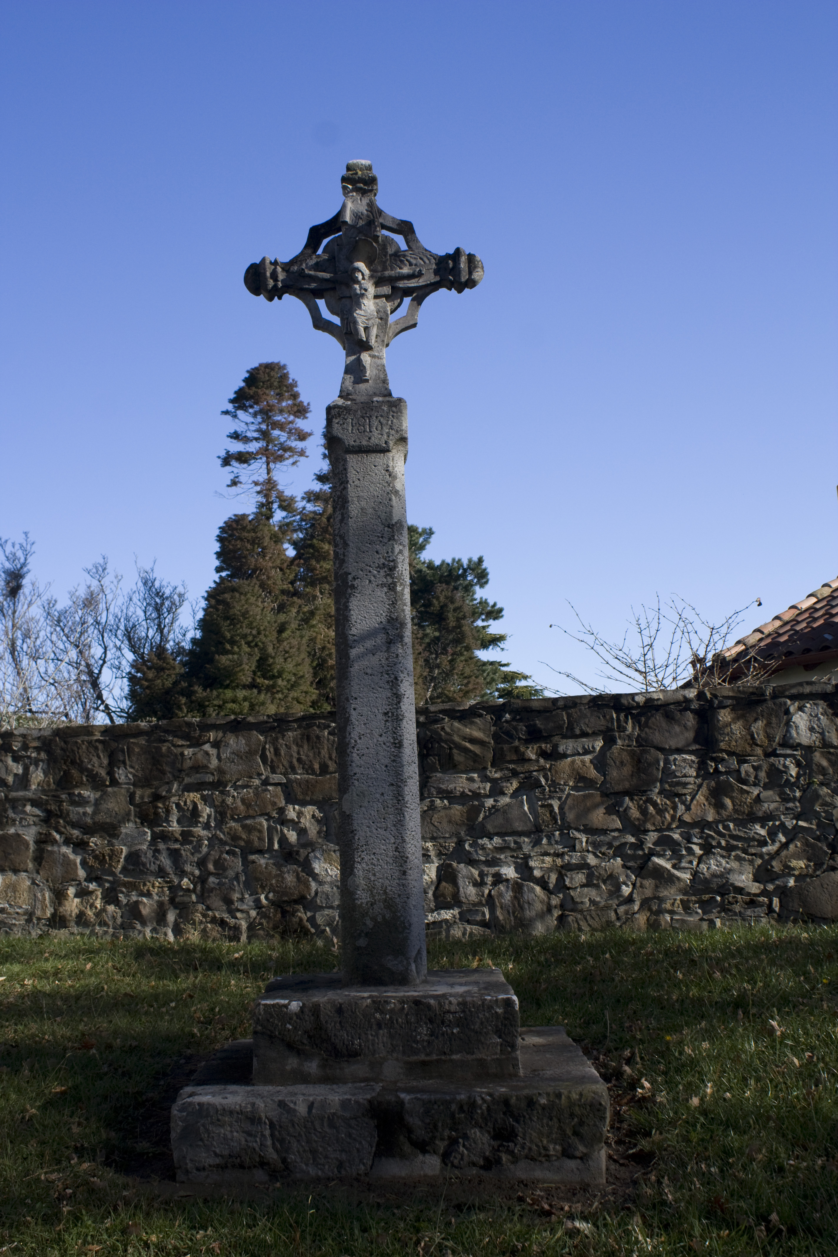 Cross of Calvary, a vestige from the small cemetery that surrounded the church of Bordagain.